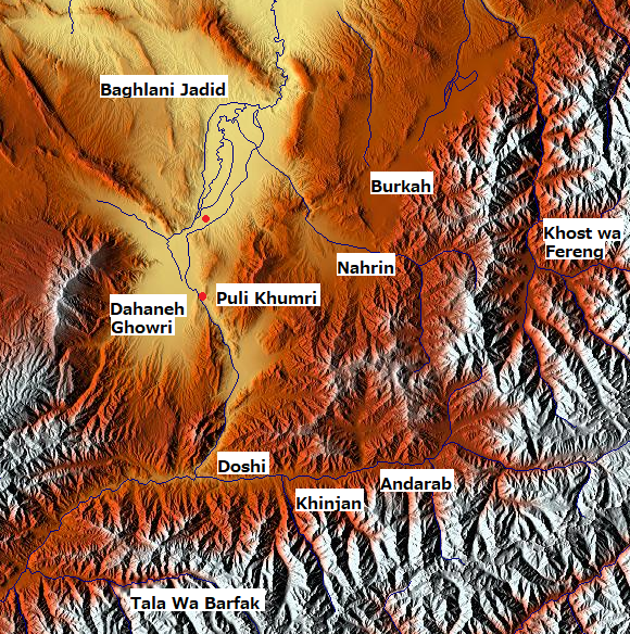 Districts of Baghlan province